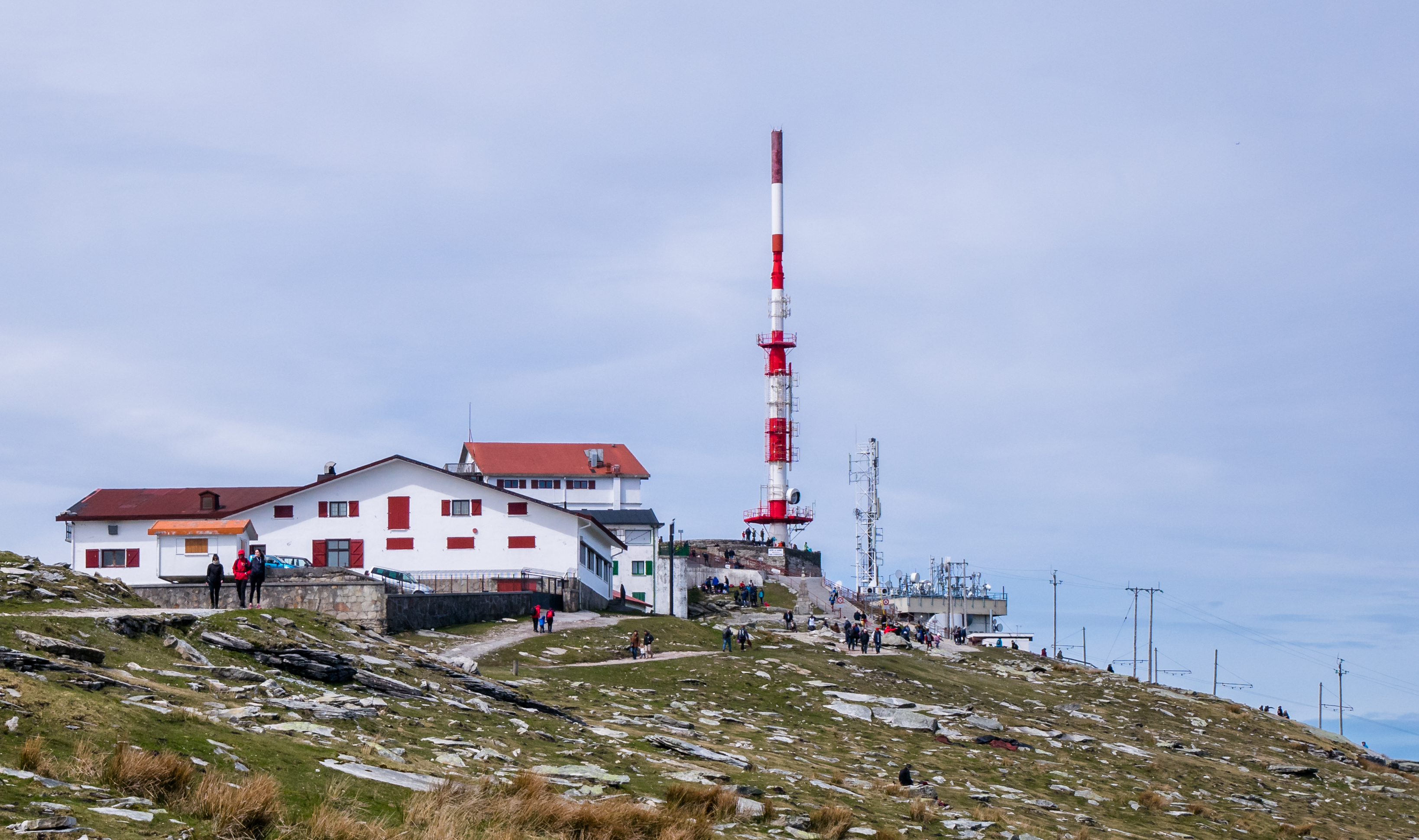 Summit of Larrun. Navarra, Spain/Pyrénées-Atlantiques, France